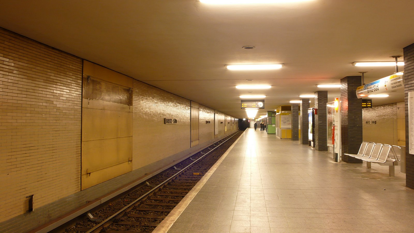 Subway Station Britz Süd Berlin